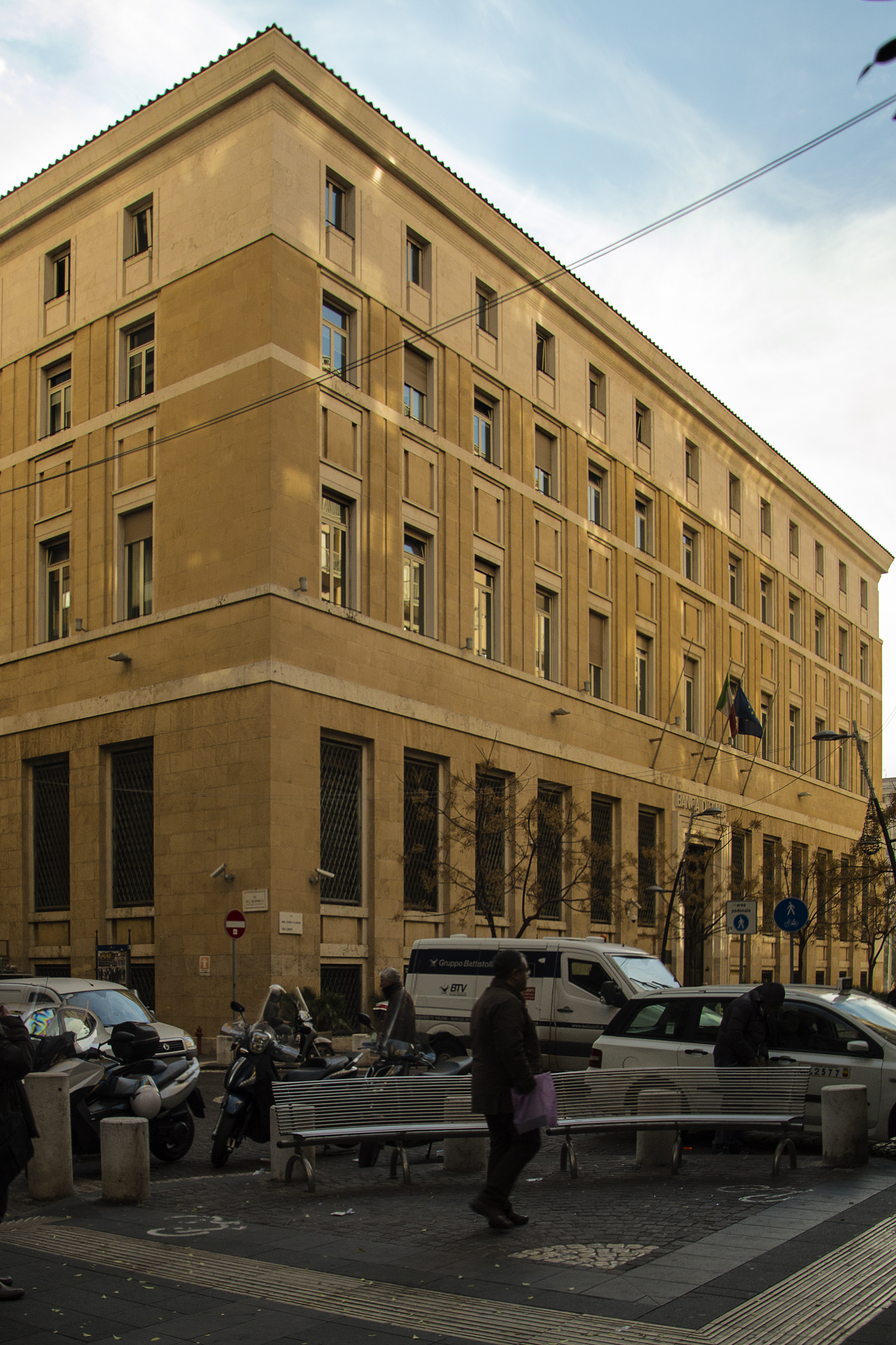 Facade